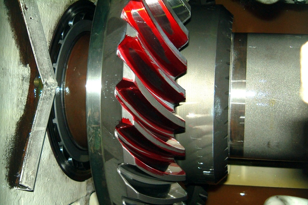 Contact pattern of a multi-stage gear unit 1500kW